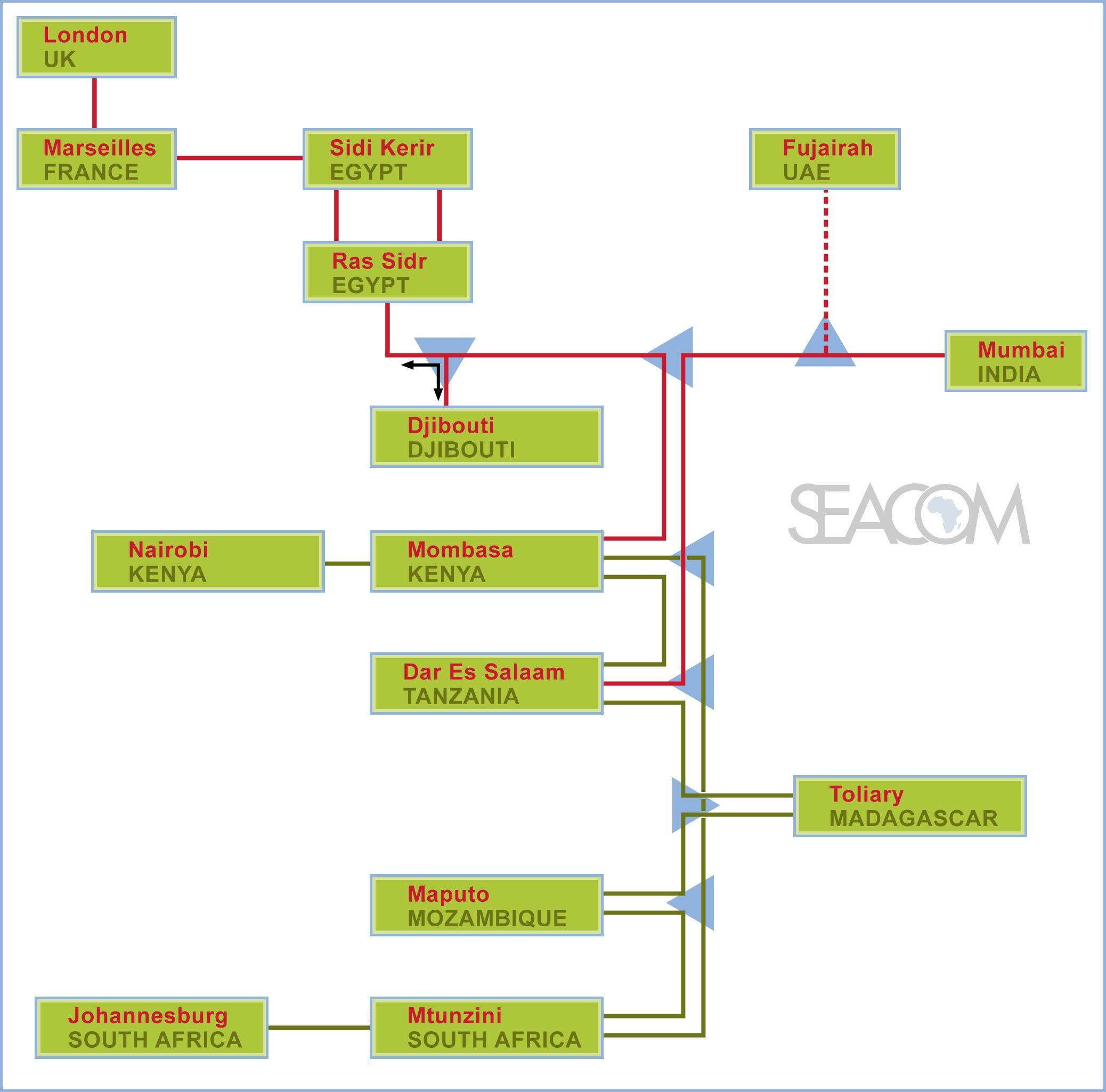 An overview diagram of the Seacom landing stations and their backhaul routes on the east and south coasts of Africa.